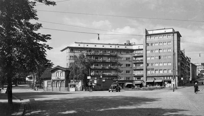 Kafé Nordpolen on Sandaker in Oslo, around 1940